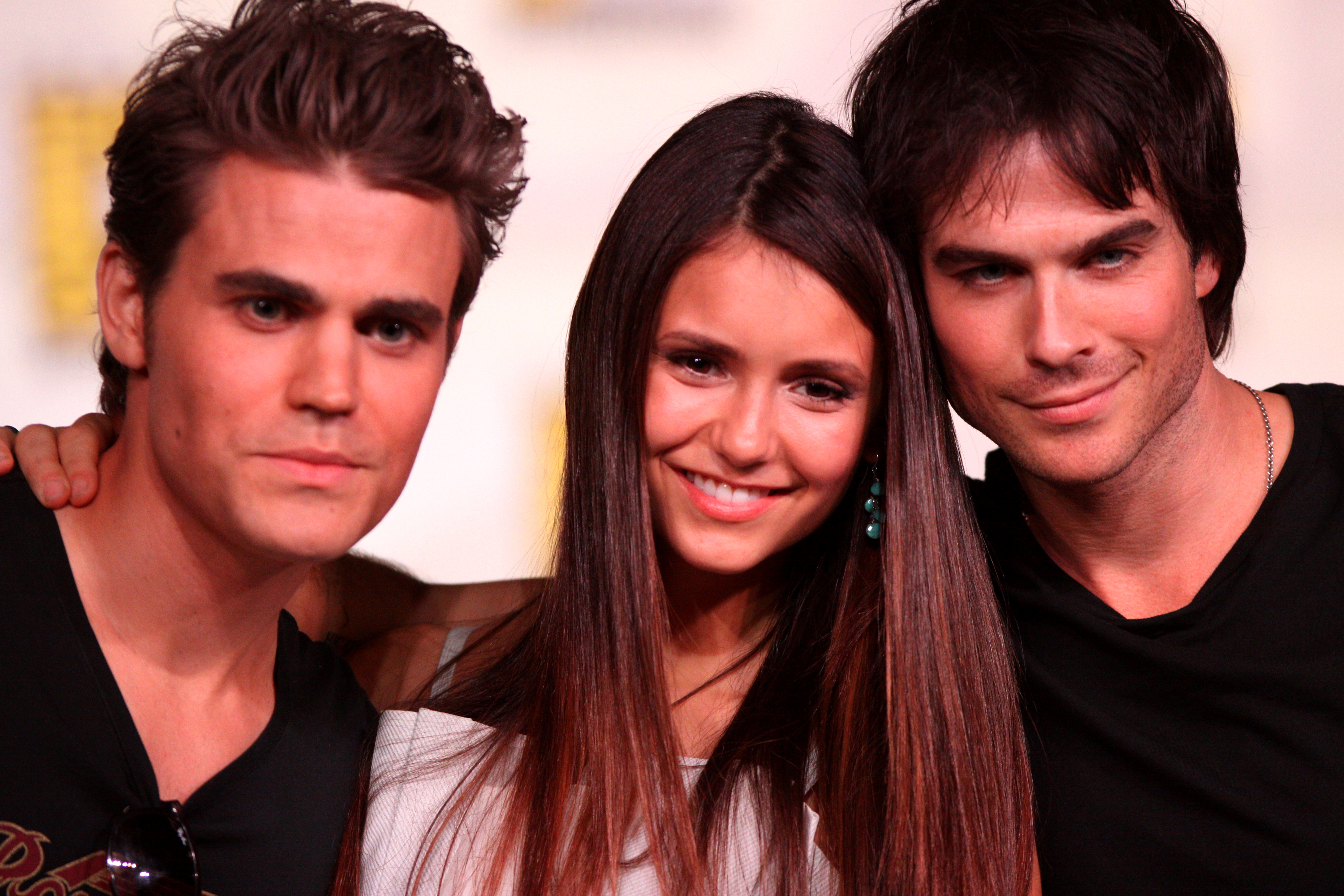 The Vampire Diaries Cast: Paul Wesley & Nina Dobrev & Ian Somerhalder at the 2012 Comic-Con in San Diego.